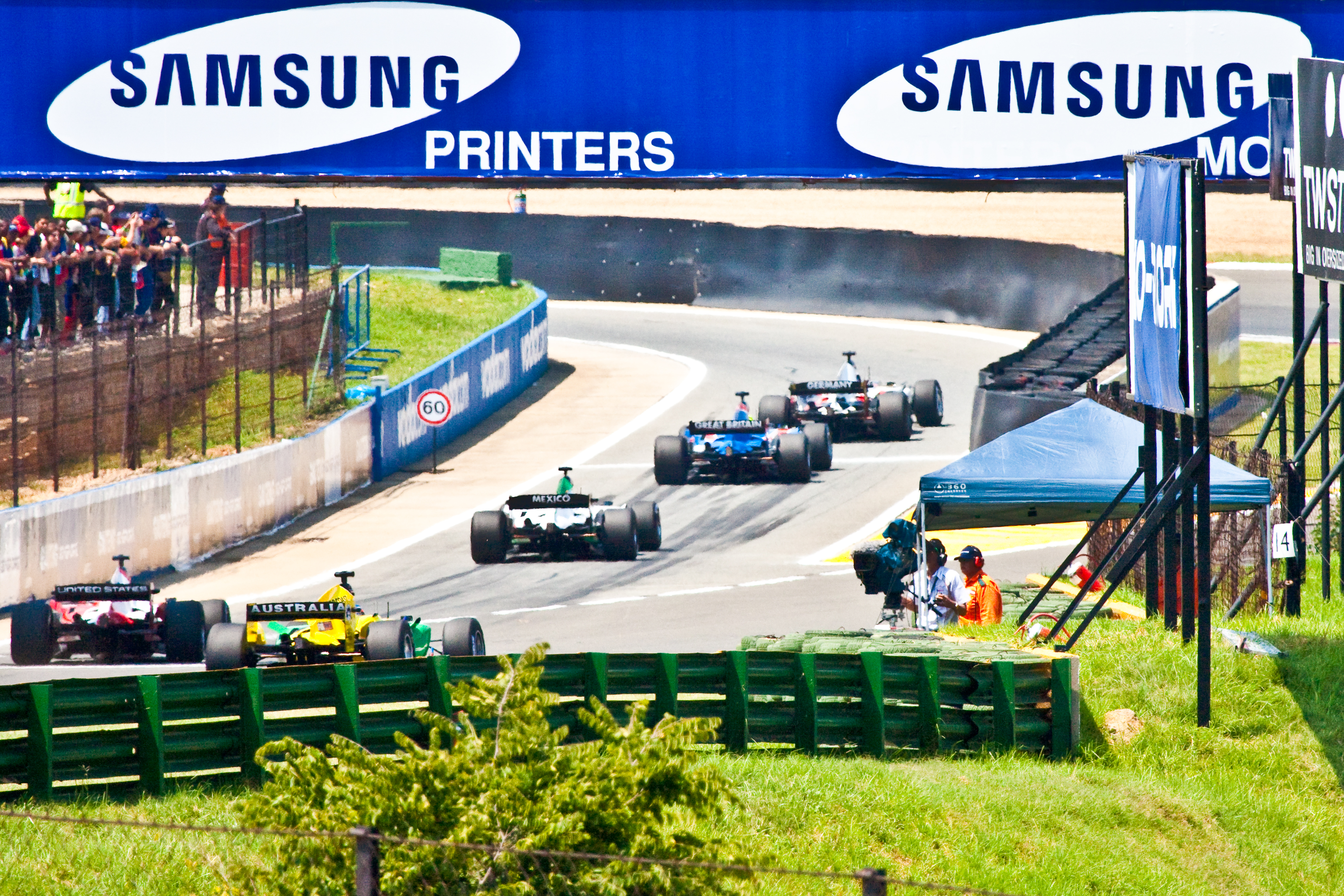 A1 Grand Prix, Kyalami